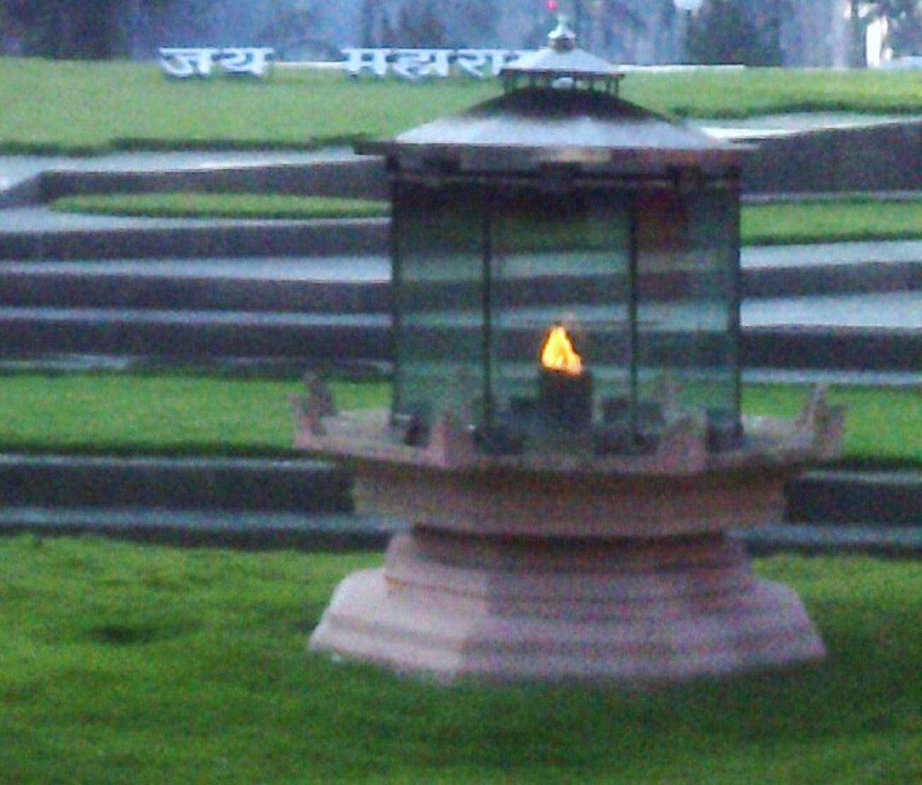 TAKEN DURING WIKIPEDIA TAKES MUMBAI 1 PHOTOWALK